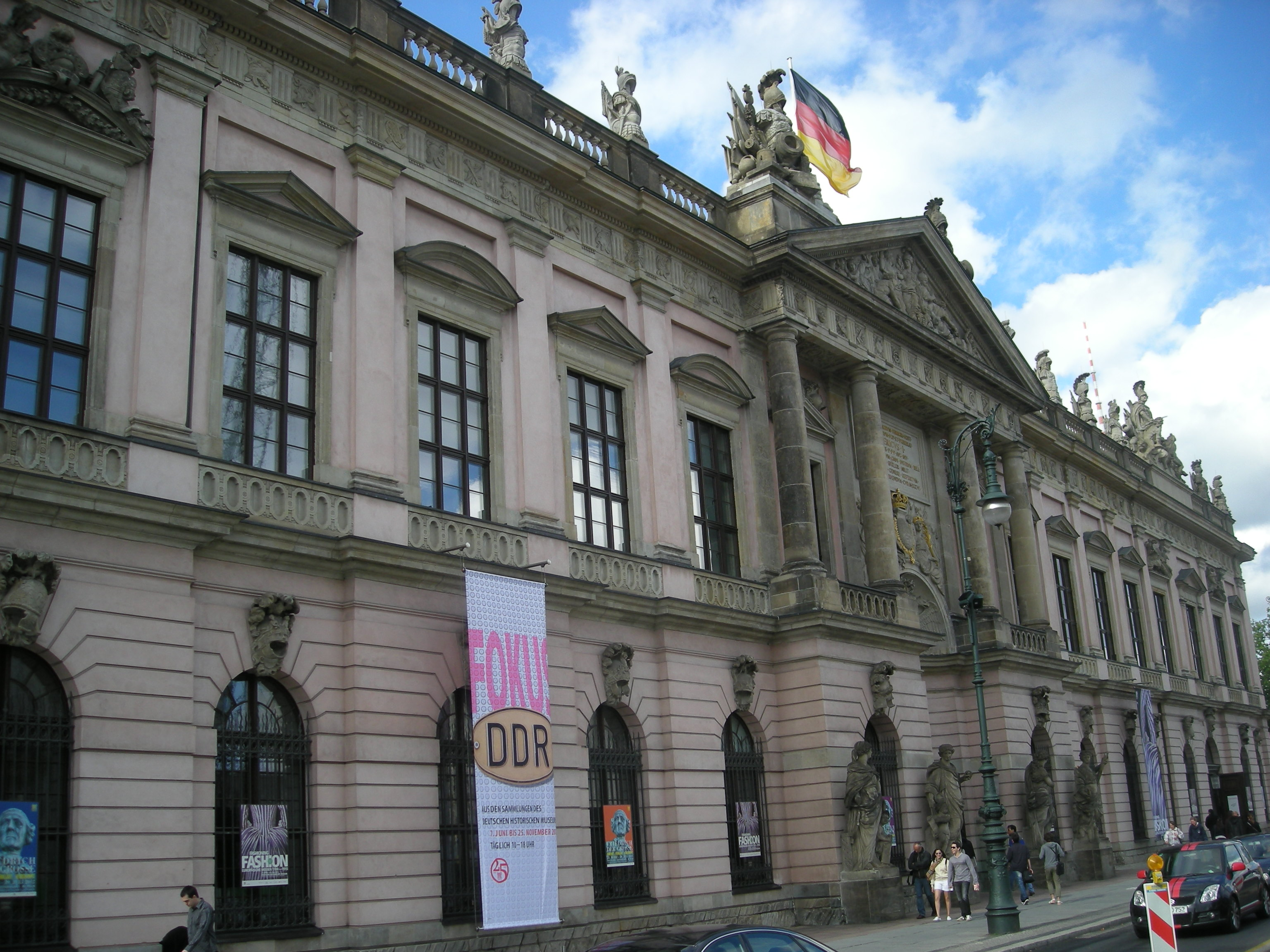 The Deutsches Historisches Museum in Berlin (Germany).